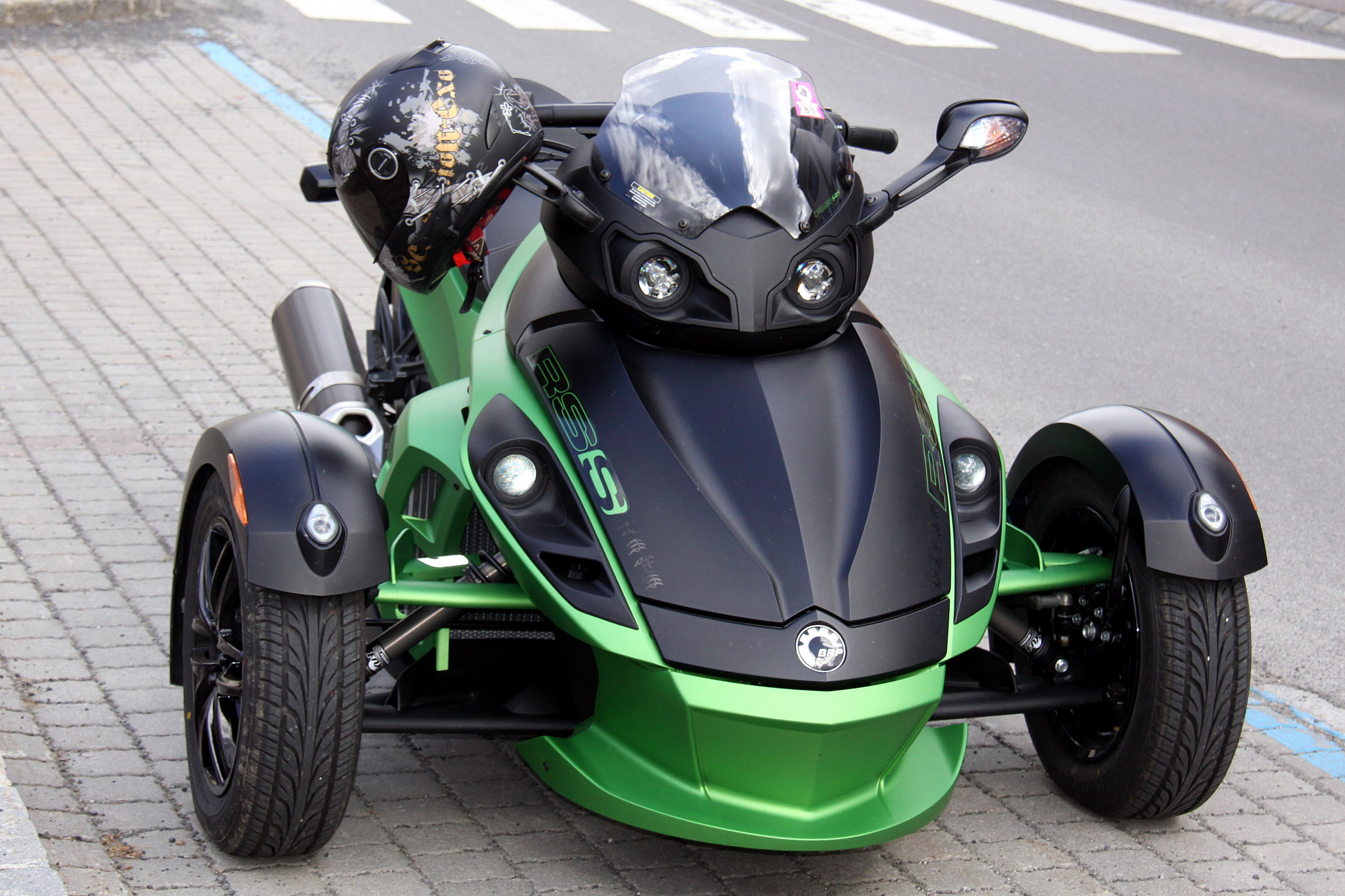 Can-Am Spyder RSS, model 2012